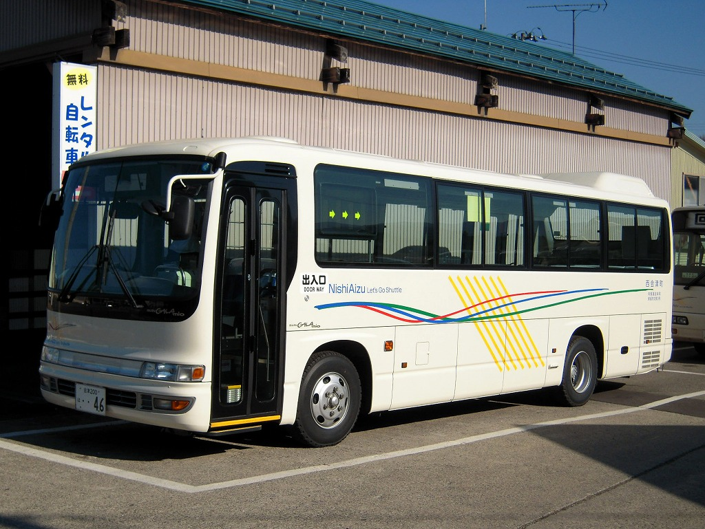 Nishi Aizu town bus "Let's go shuttle",Isuzu Gala Mio (BDG-RR7JJBJ)